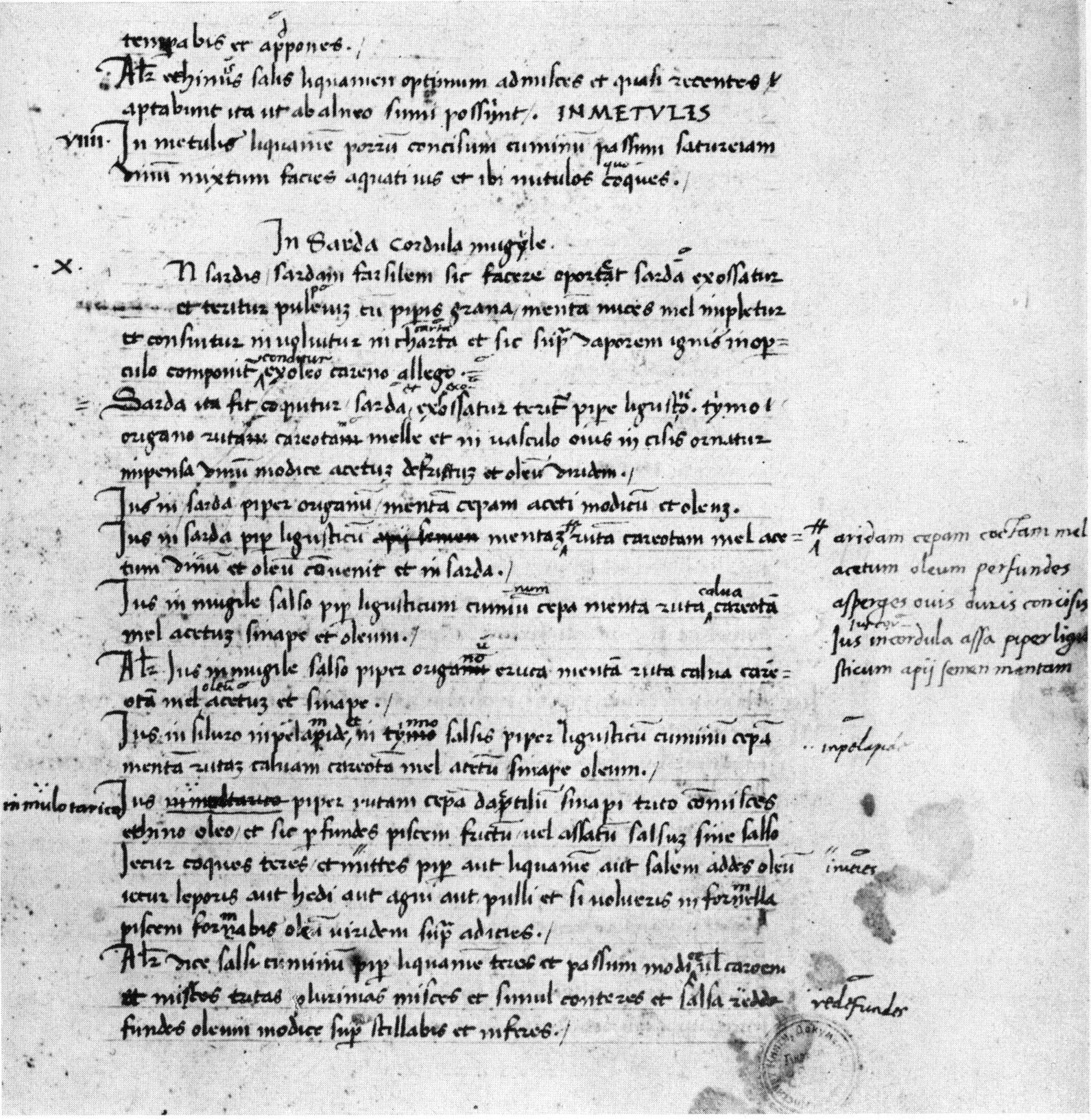 Pseudo-Apicius, De re coquinaria. Manuscript with notes by Poliziano. Saint Petersburg, Library of the Russian Academy of Sciences, Ms. 627/1 (V 644), fol. 7r.